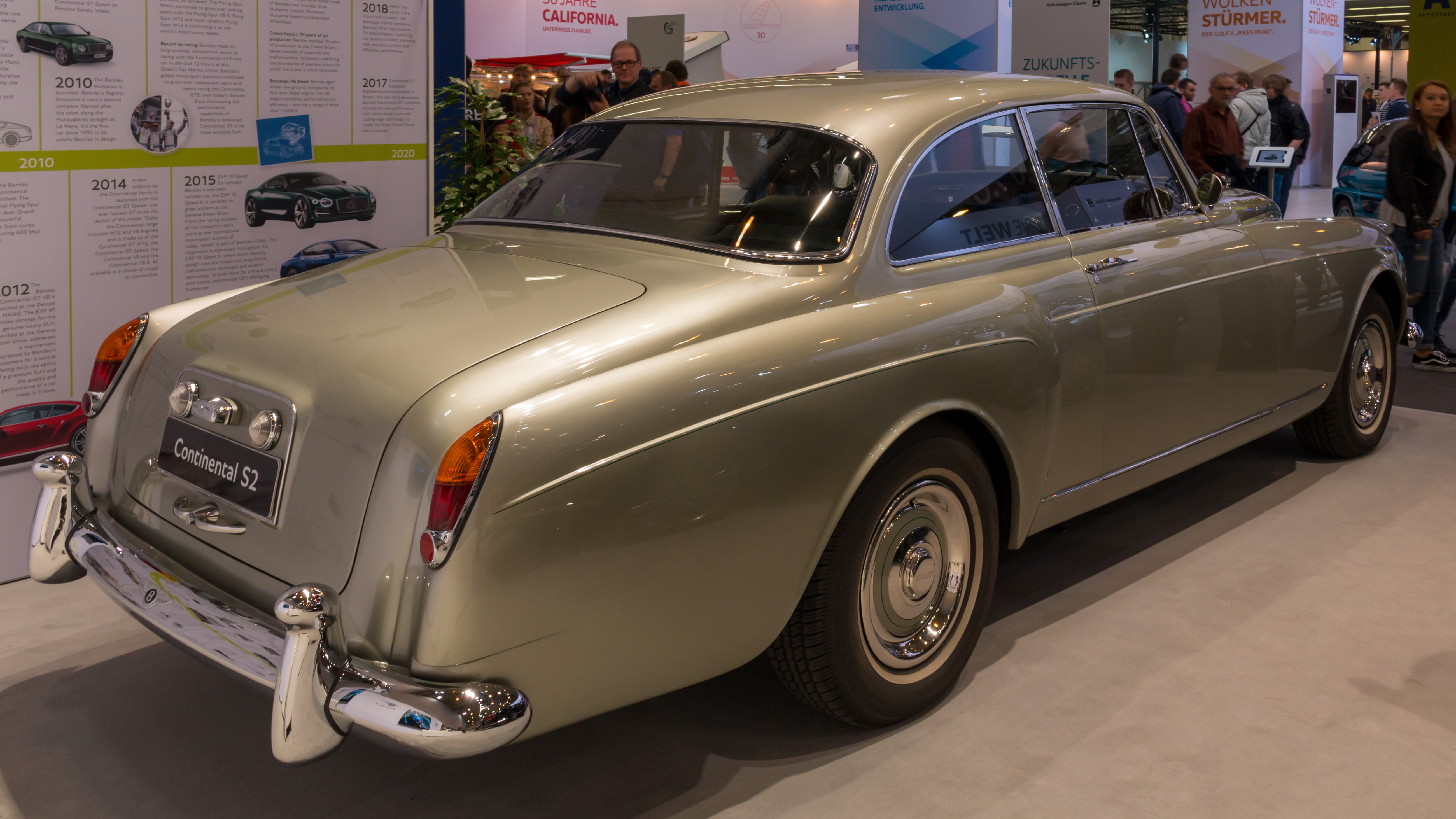 Techno-Classica 2018, Essen